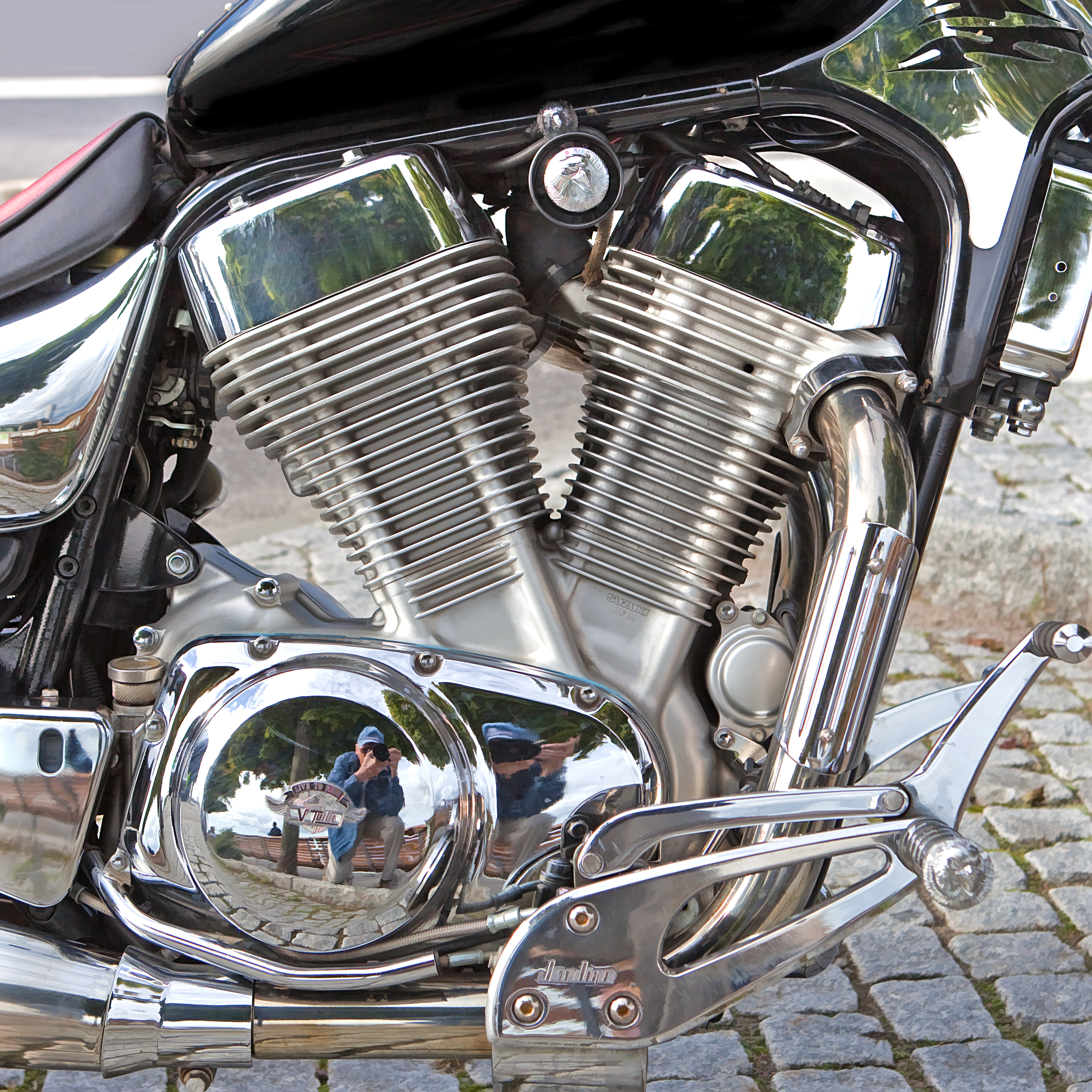 Suzuki motorcycle engine. Photo Vaxholm August 2012